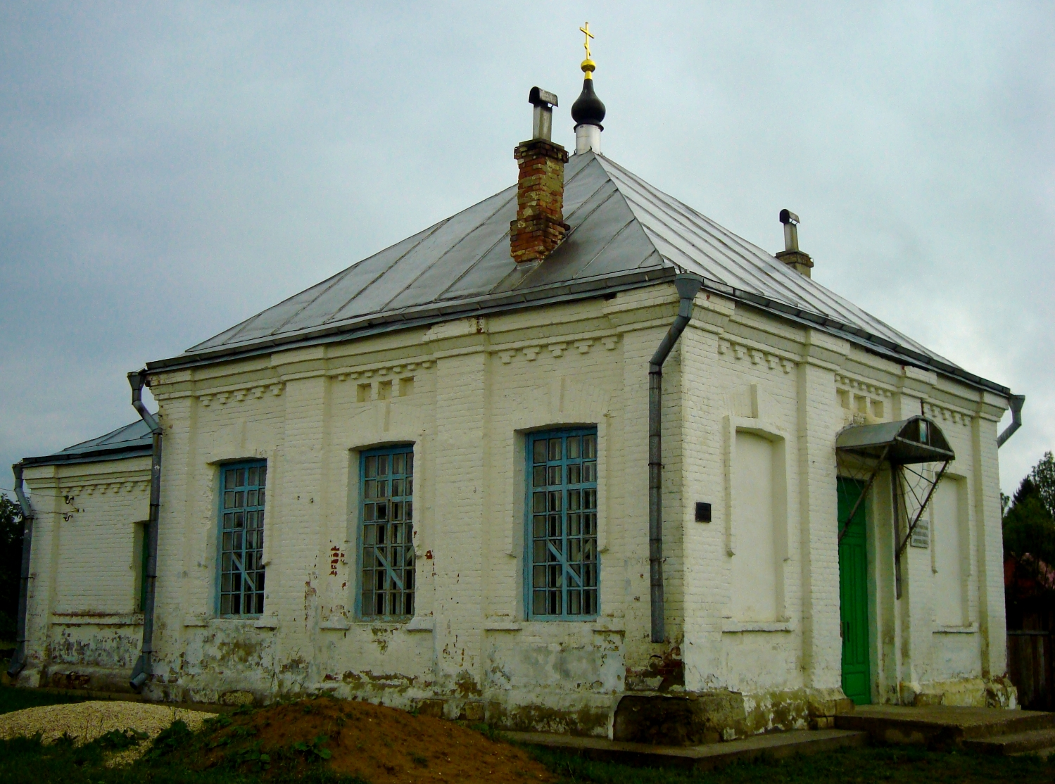 Church of Trinity. Kostino, Vladimir oblast, Russia